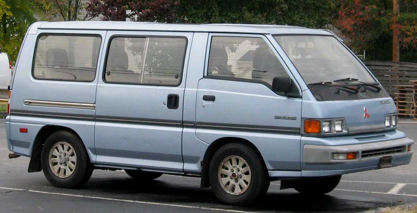 Mitsubishi Wagon (GLS model) photographed in College Park, Maryland, USA.